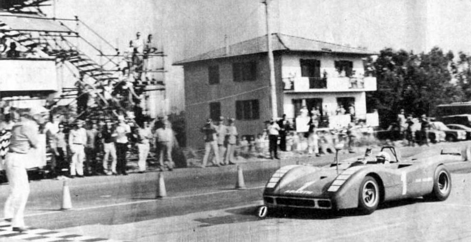 Mugello (Tuscany, Italy), Mugello road circuit, July 19, 1970. Italian motor racing driver Arturo Merzario on a Fiat Abarth 2000 Sport Spider Type SE 019 “Fuoribordo” (Group 6 - P2.0) of Abarth & C., pass the finish line during the victorius 1970 Mugello Grand Prix, valid as round 6 of European 2-litre Sports Car Championship for Makes, and round 9 of Italian Sport Championship.